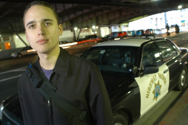 Adrian Lamo, outside the San Francisco Greyhound station.